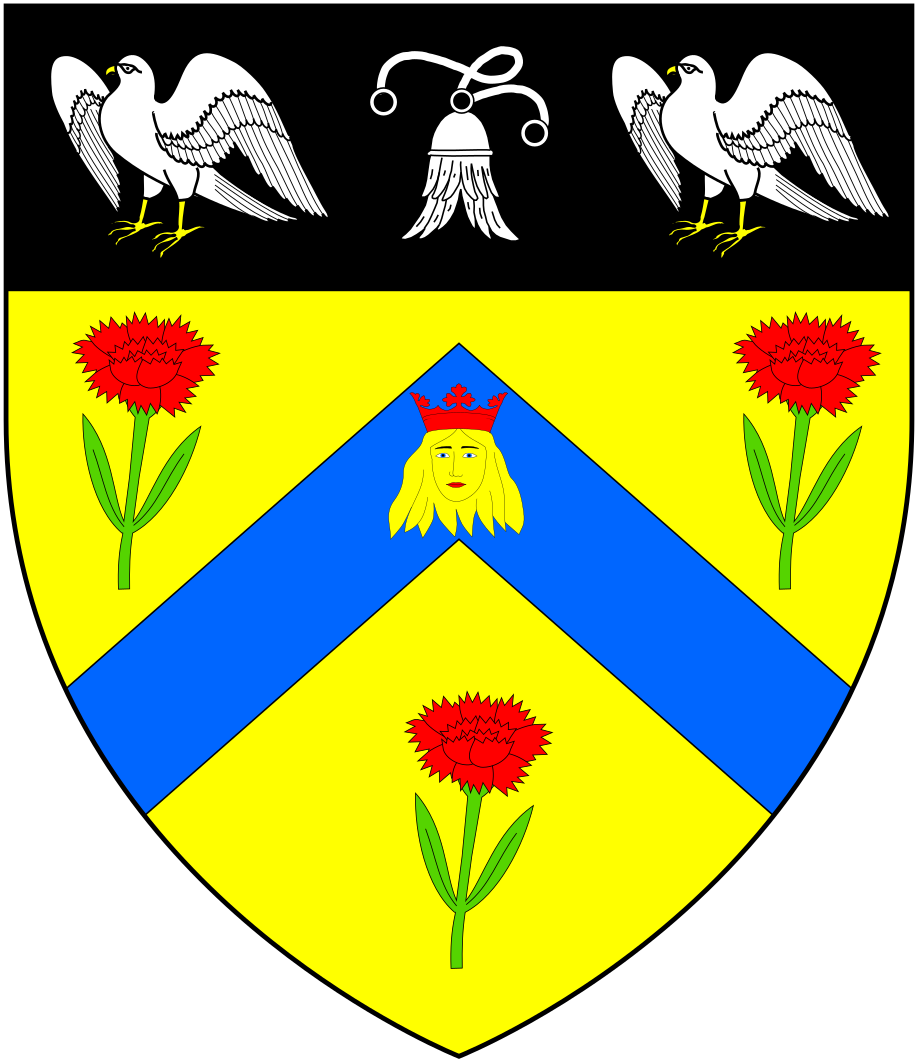 Arms of Jewell of Bowden in Devon: Or, on a chevron azure between three gillyflowers gules stalked and leaved vert a maiden's head of the first ducally crowned of the third on a chief sable a hawk's lure double stringed between two falcons argent beaked and legged of the first (Vivian, Lt.Col. J.L., (Ed.) The Visitations of the County of Devon: Comprising the Heralds' Visitations of 1531, 1564 & 1620, Exeter, 1895, p.505)